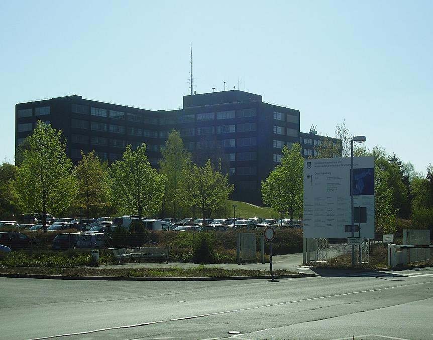 Bundeswehr hospital in Ulm